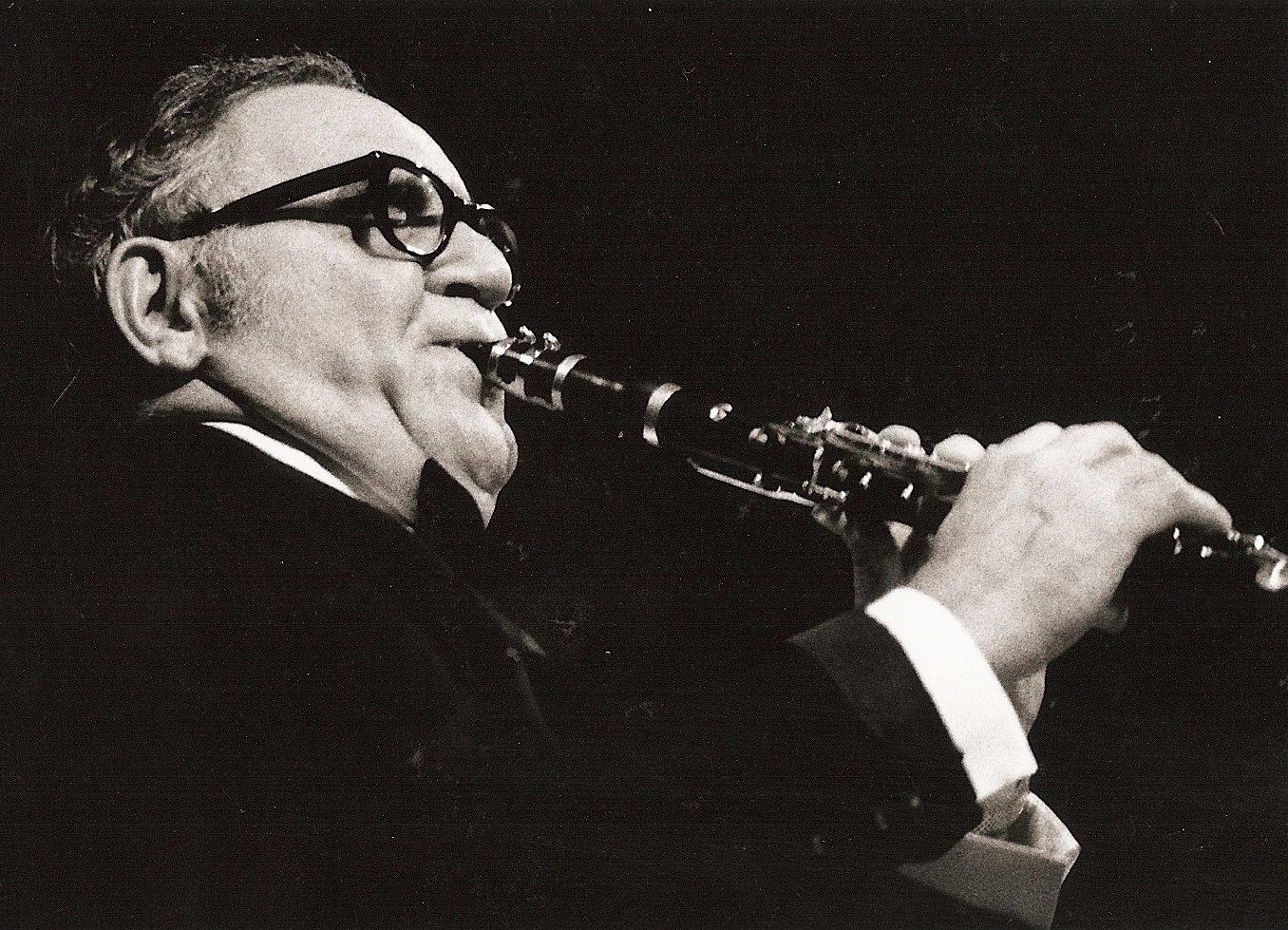 Benny Goodman in concert 1971